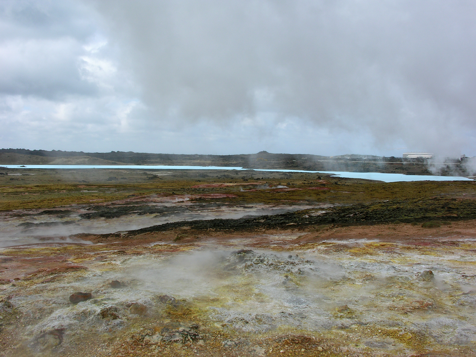 Iceland, Gunnuhver